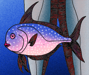 Reconstruction of the Oligocene turkmenid lamprid Analectis pala.